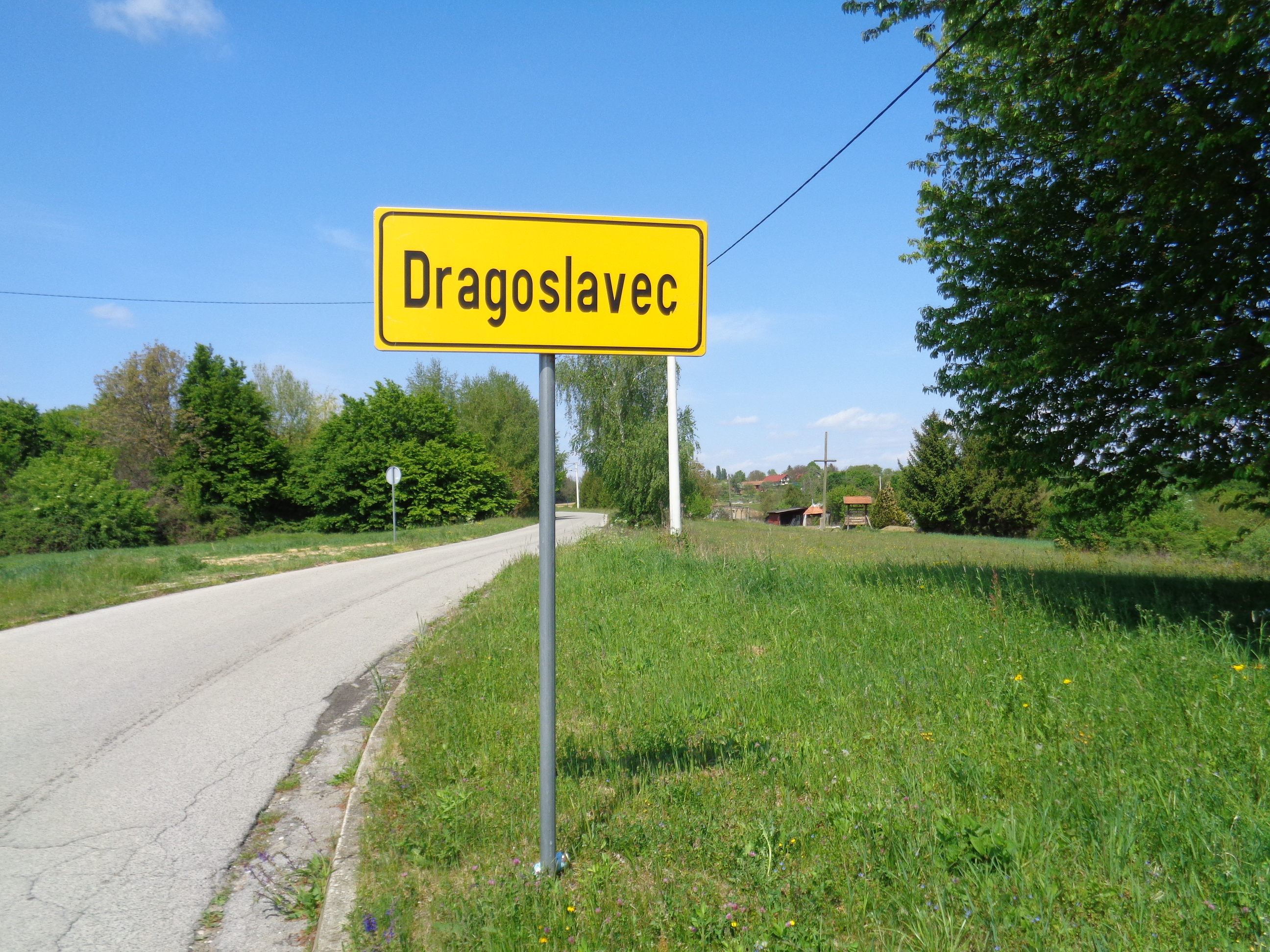 Dragoslavec village, Sveti Juraj na Bregu municipality, Medjimurje County, Croatia - village entrance